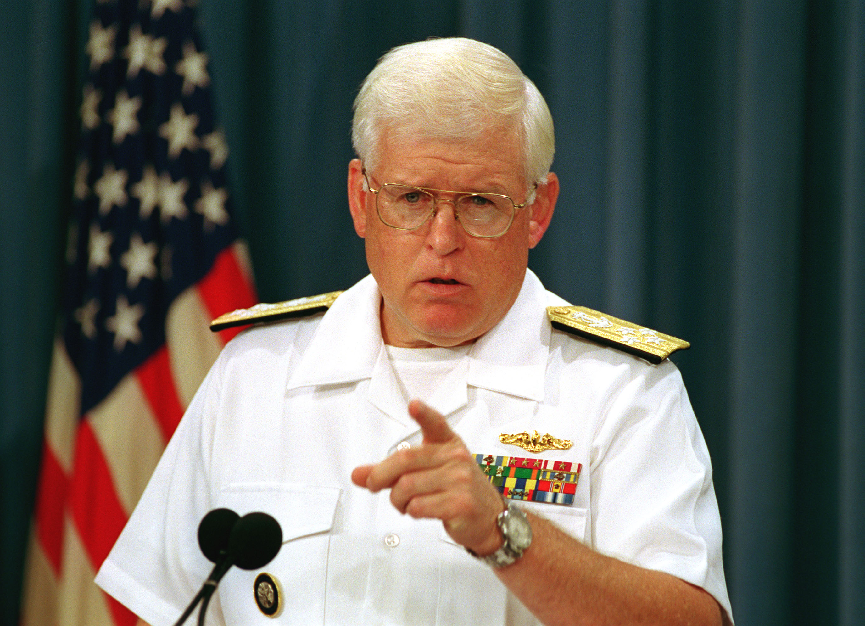 Admiral Richard W. Mies from [1]